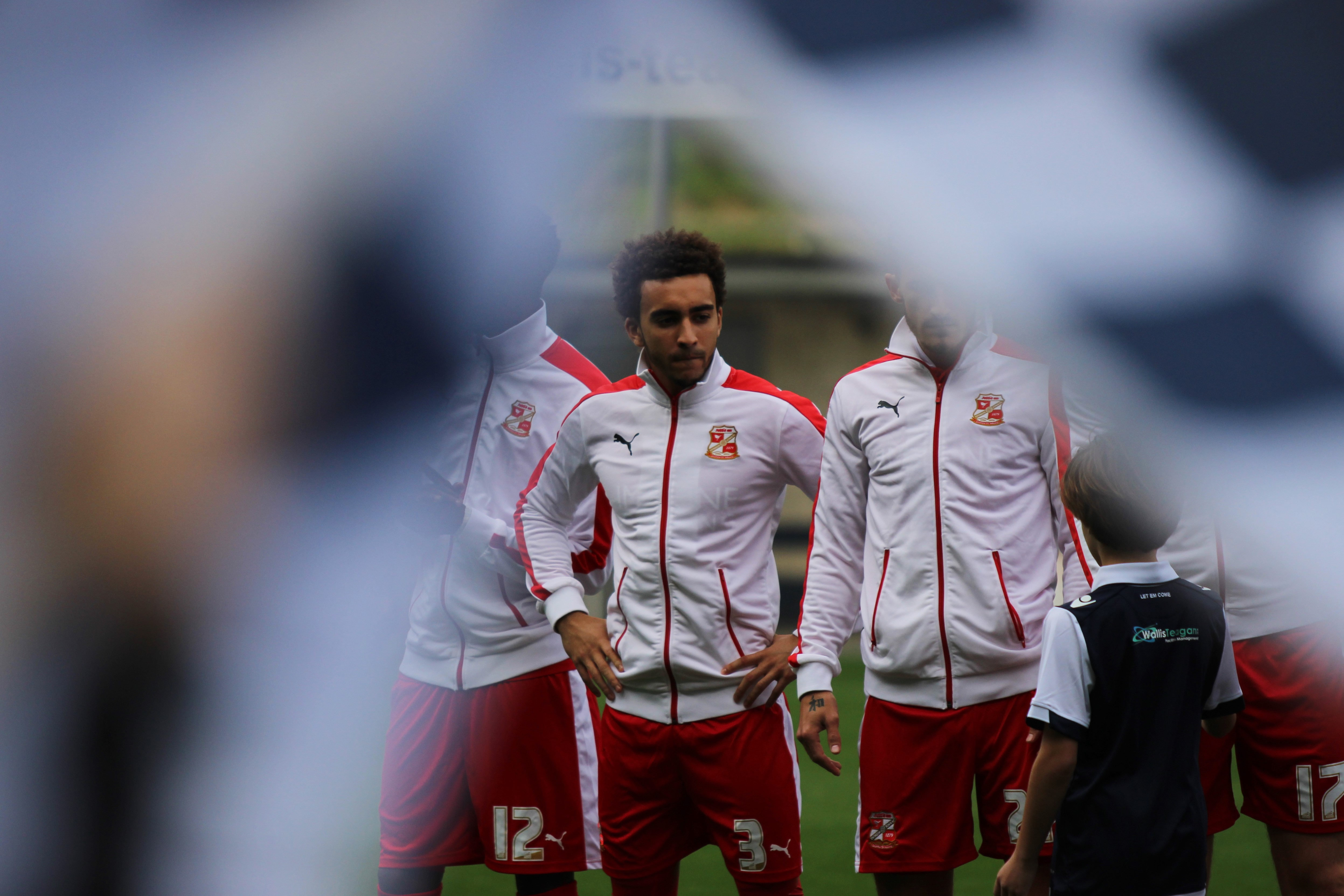 Brandon Ormonde-Ottewill of Swindon Town before the game against Millwall.